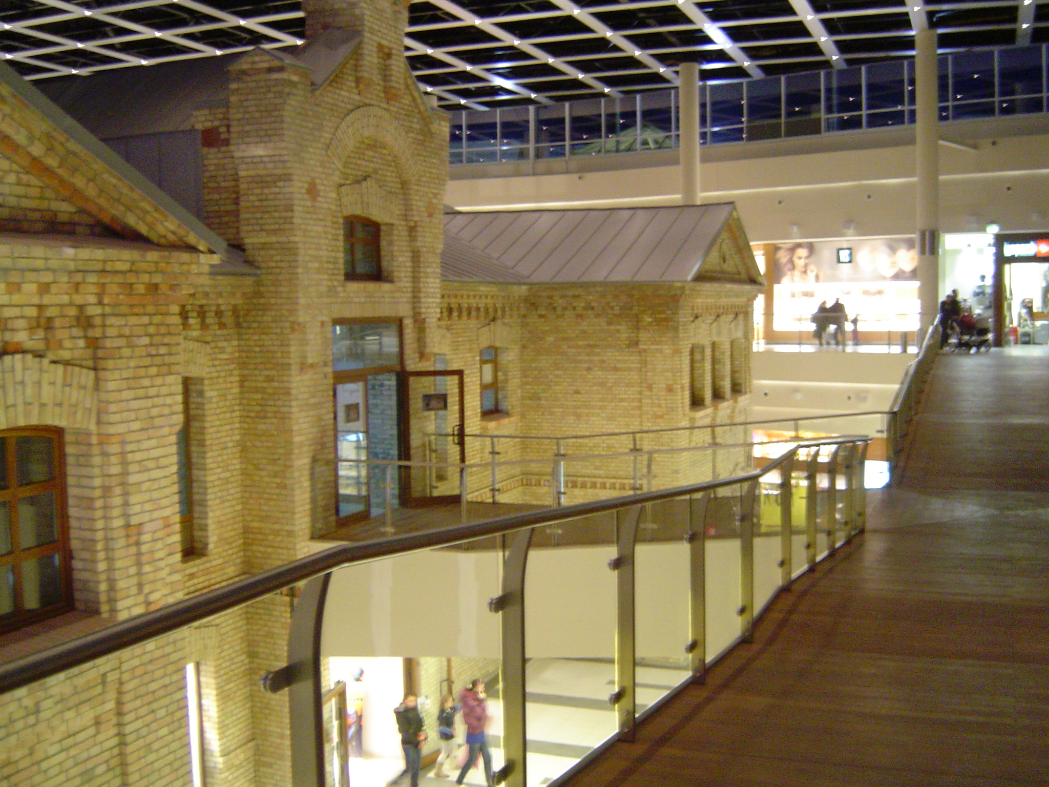 Shopping Mall Suwalki Plaza in Suwałki, Poland. Old buildings of Russian prison inside shopping mall